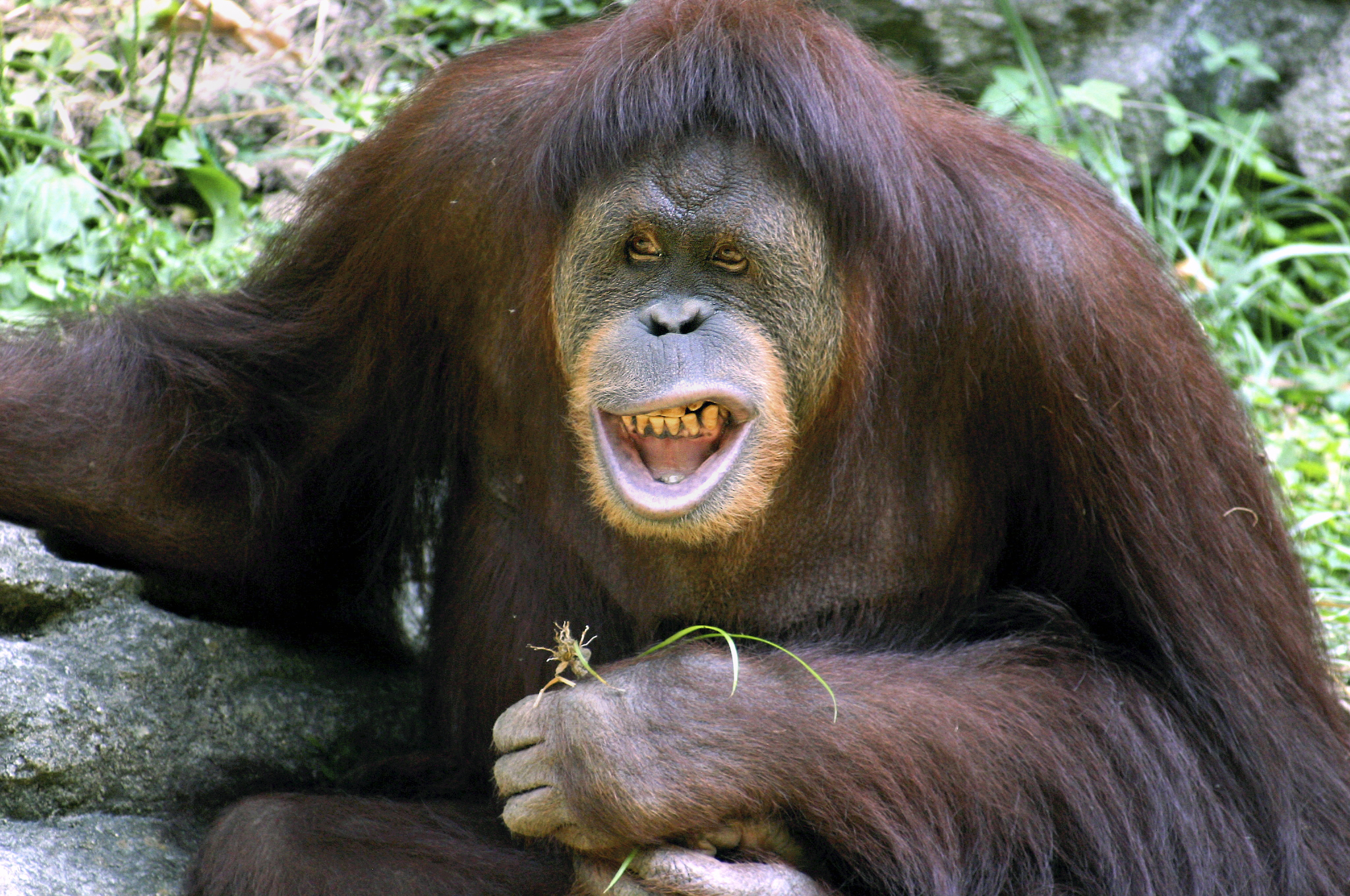 Sumatran Orangutan